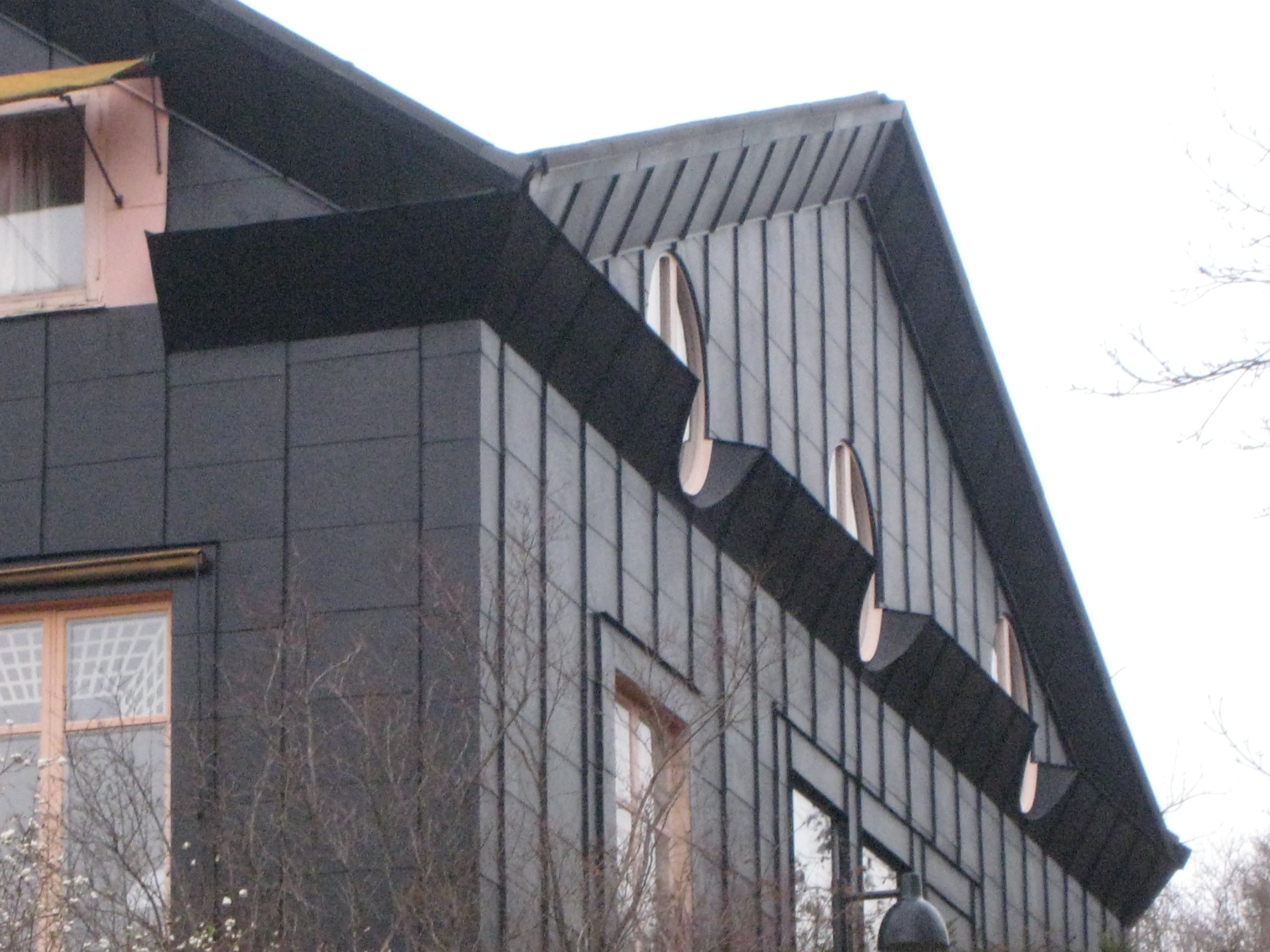 Villa Klockberga, Peter Celsing